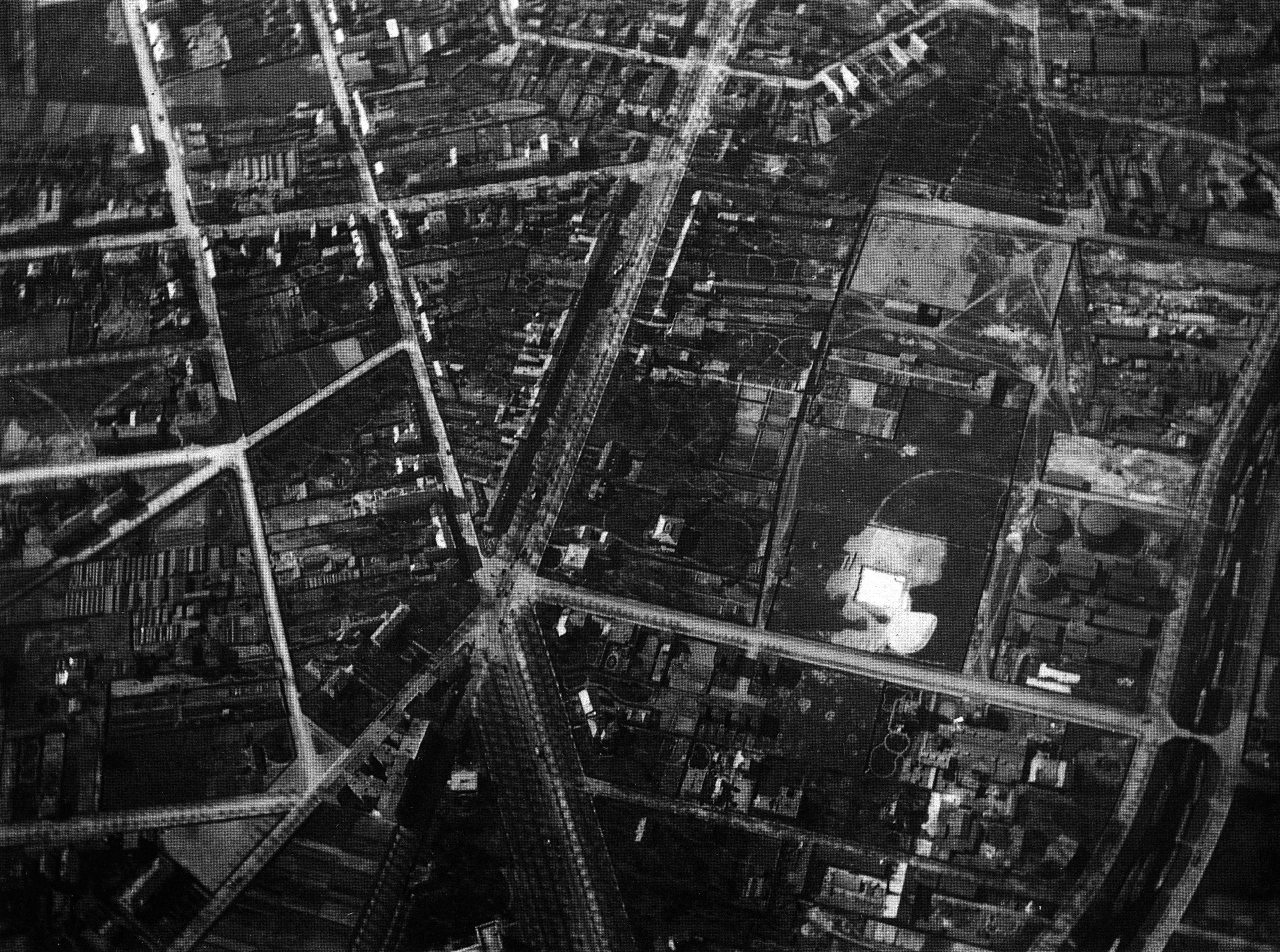 A balloon shot at the square Am Knie (“at the knee”, now Ernst-Reuter-Platz) in the city of Charlottenburg (now part of Berlin), viewing west.